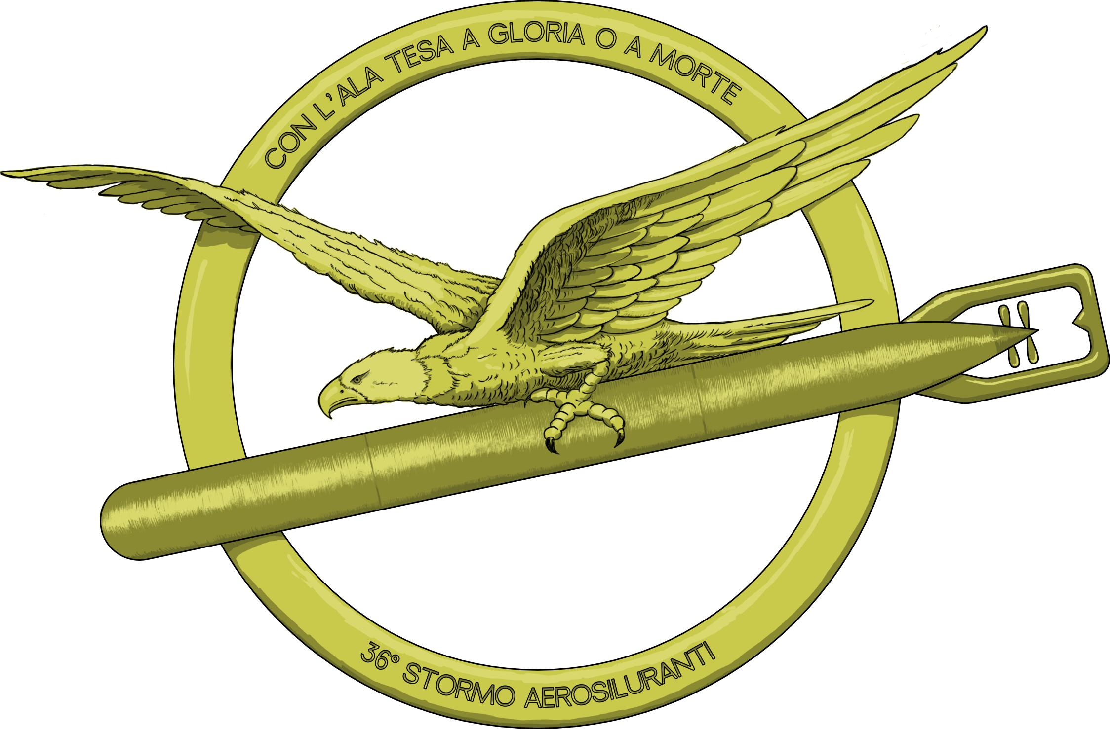 ensign of the 36º Stormo Aerosiluranti (36th Torpedo Bomber Wing) of the Regia Aeronautica (Italian Air Force).